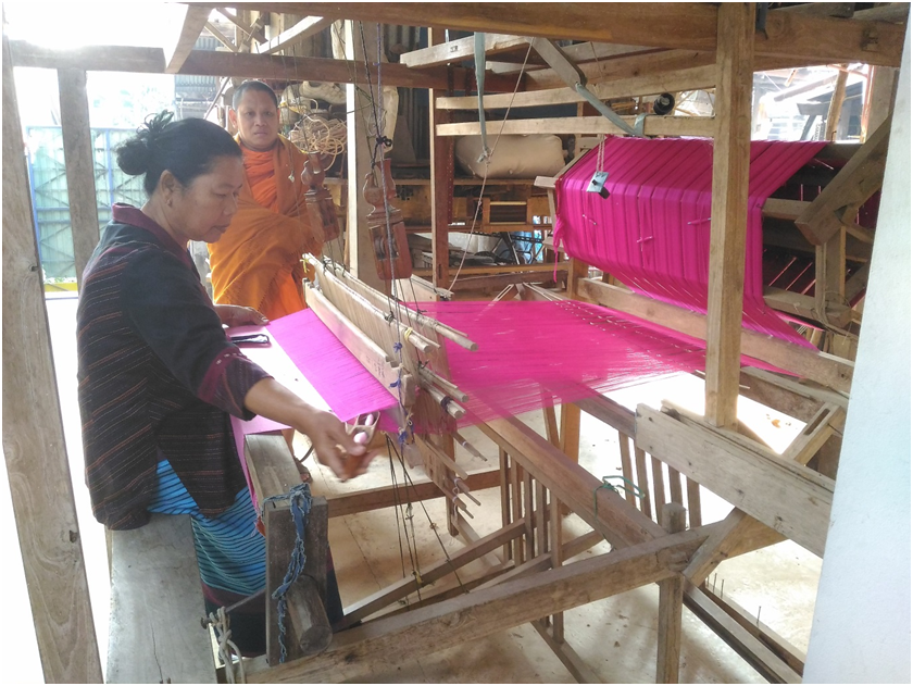 Ban Nam Rid, Uttaradit